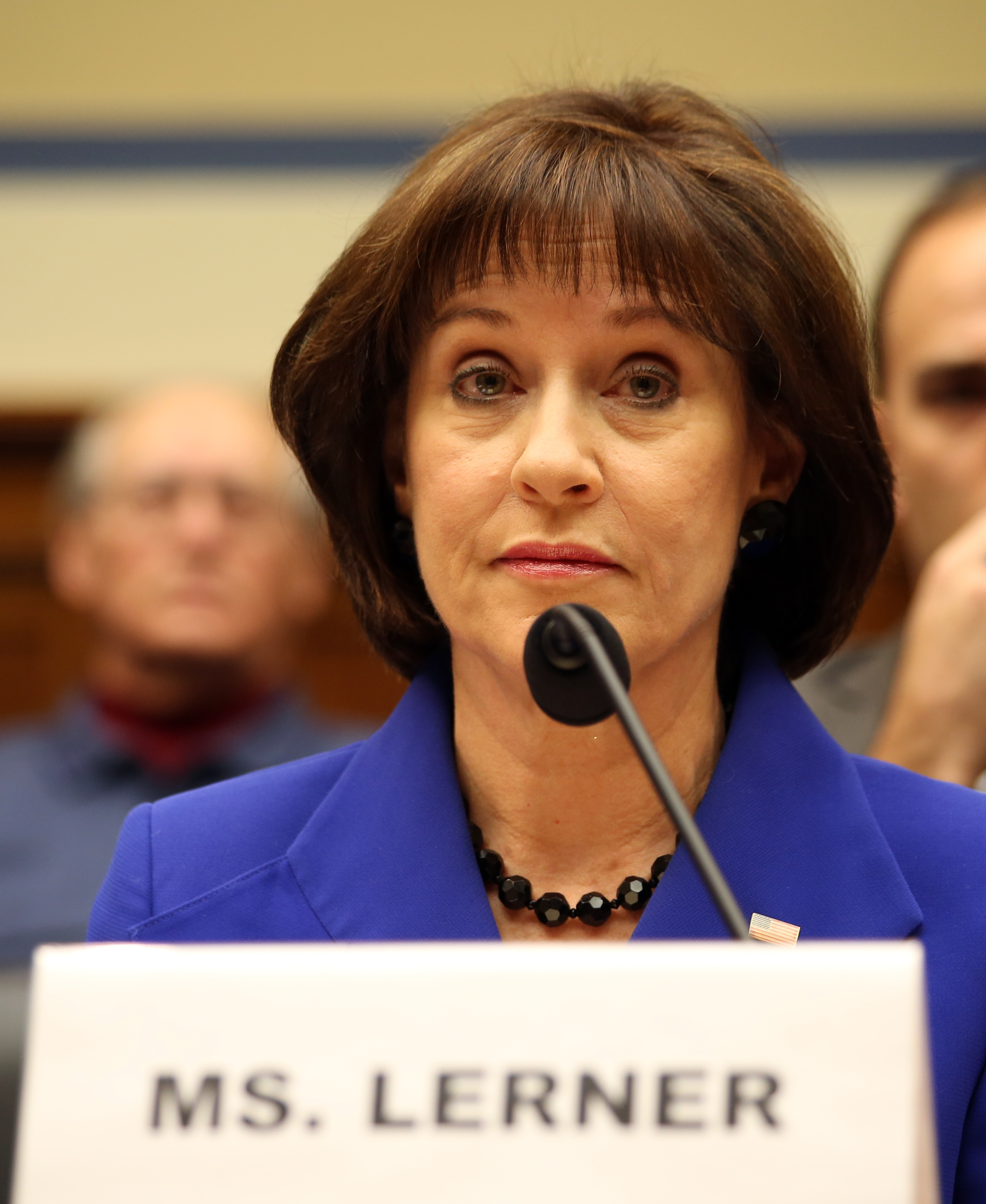 Lois Lerner takes the Fifth Amendment right to silence, during the hearing before the US House of Representatives Committee on Oversight & Government Reform, "The IRS: Targeting Americans for Their Political Beliefs".